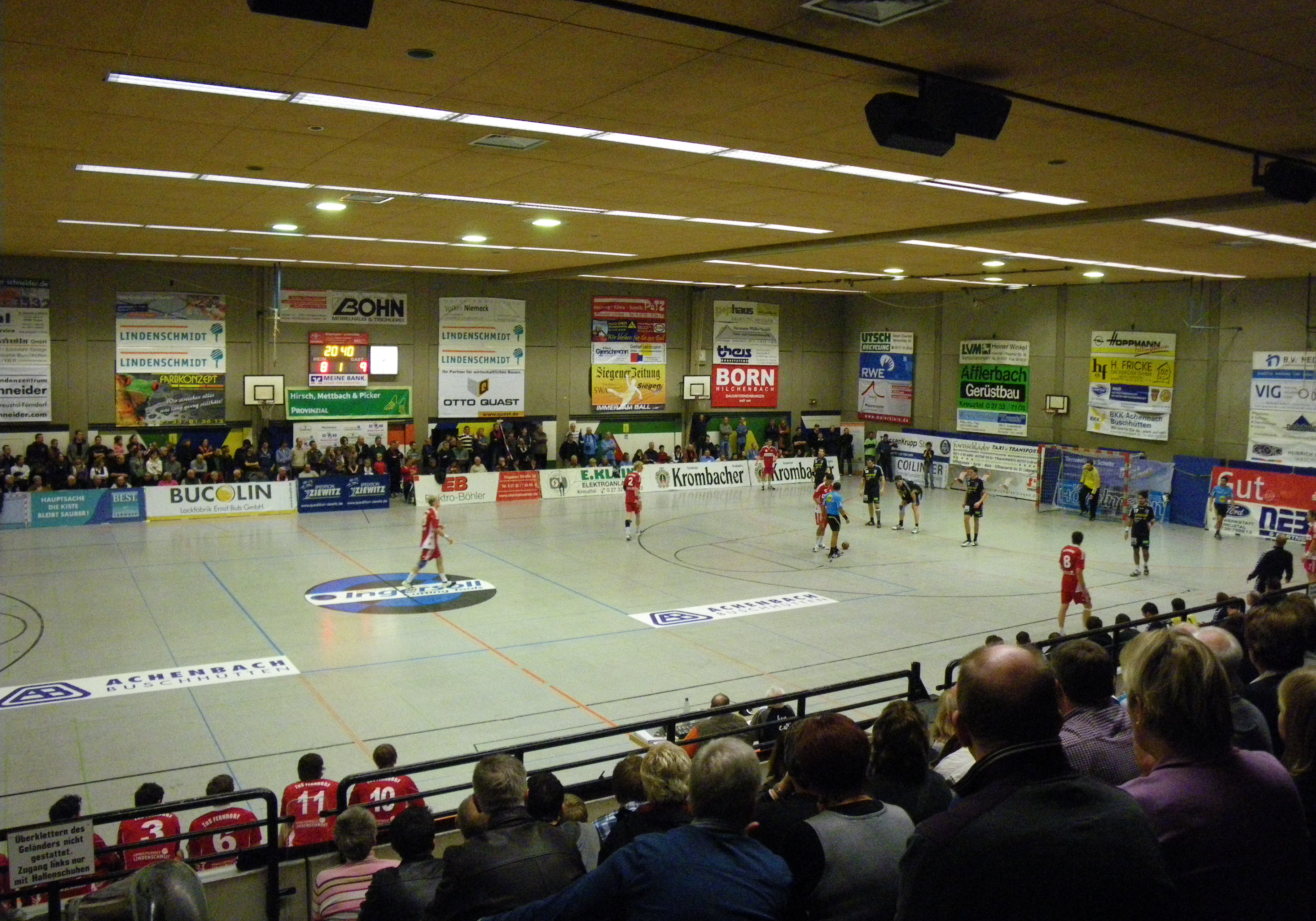 Handball match between "TuS Ferndorf" and "Leichlinger TV" in Kreuztal, Germany in the sports hall called "Stählerwiese".